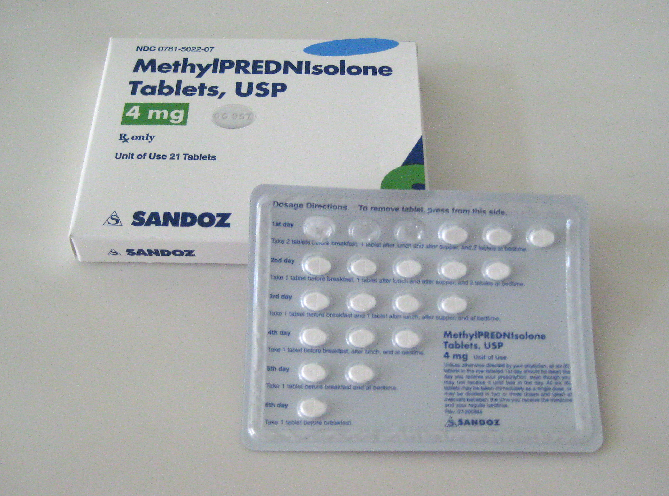 Dosage package and box for the 4 mg glucocorticoid steroid Methylprednisolone by Sandoz. Front of box: NDC 0781-5022-07. MethylPREDNIsolone. Tablets, USP. 4mg. Rx only. Unit of Use 21 Tablets. Dosage package: Dosage Directions: To remove tablet, press from this side. 1st day: Take 2 tablets before breakfast, 1 tablet after lunch and after supper, and 2 tablets at bedtime. 2nd day: Take 1 tablet before breakfast, 1 tablet after lunch and after supper, and 2 tablets at bedtime. 3rd day: Take 1 tablet before breakfast and 1 tablet after lunch, after supper, and at bedtime. 4th day: Take 1 tablet before breakfast, after lunch, and at bedtime. 5th day: Take 1 tablet before breakfast and at bedtime. 6th day: Take 1 tablet before breakfast. Small print: MethylPREDNIsolone. Tablets, USP. 4mg. Unit of Use. Unless otherwise directed by your physician, all six (6) tablets in the row labelled 1st day should be taken the day you receive your prescription, even though you may not receive it until late in the day. All six (6) tablets may be taken immediately as a single dose, or may be divided in two or three doses and taken at intervals between the time you receive medicine and your regular bedtime. Sandoz.